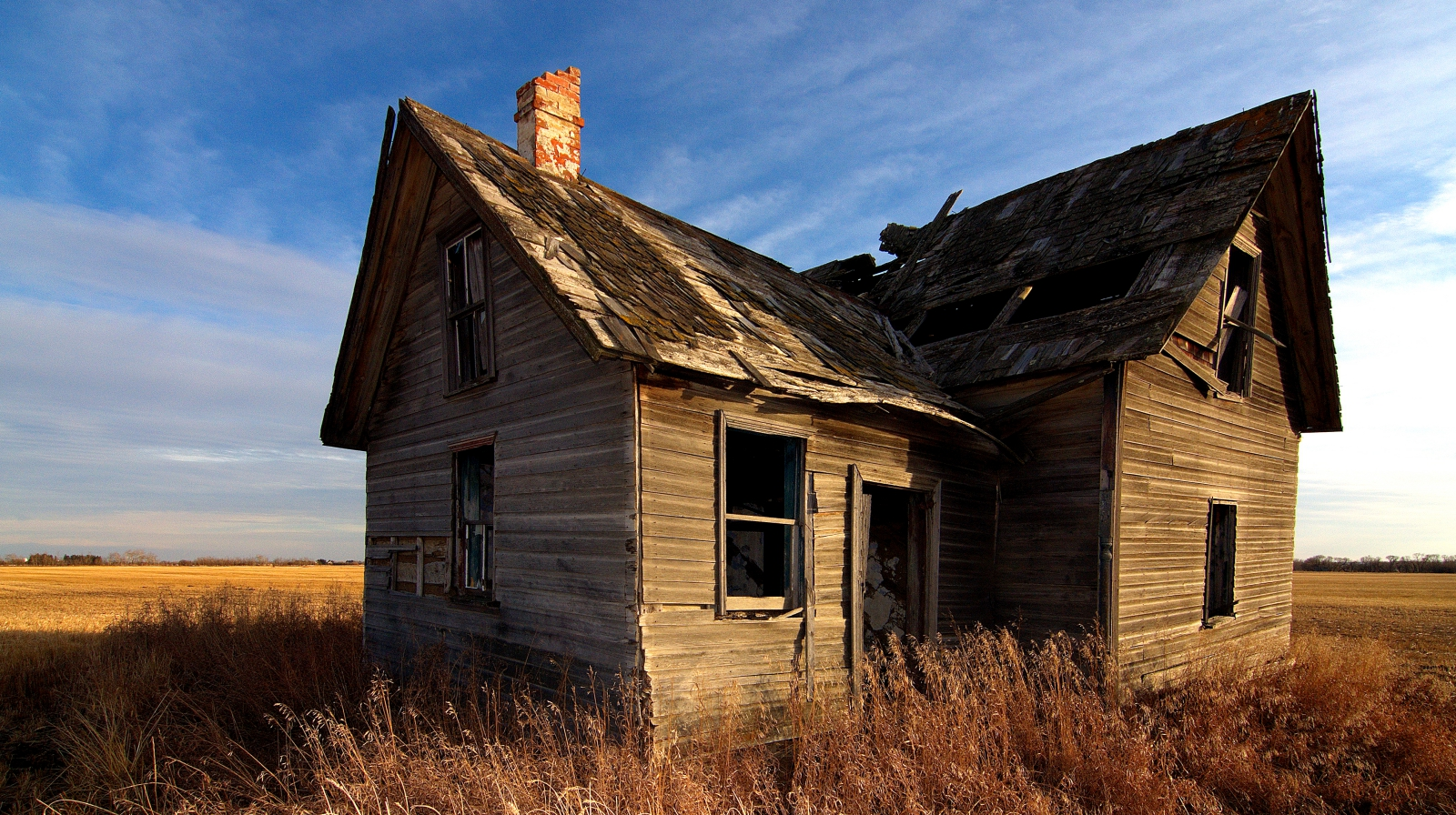 An abandoned homestead just outside Bruderheim. Exposure 0.005 sec (1/200) Aperture f/11.0 Focal Length 11 mm